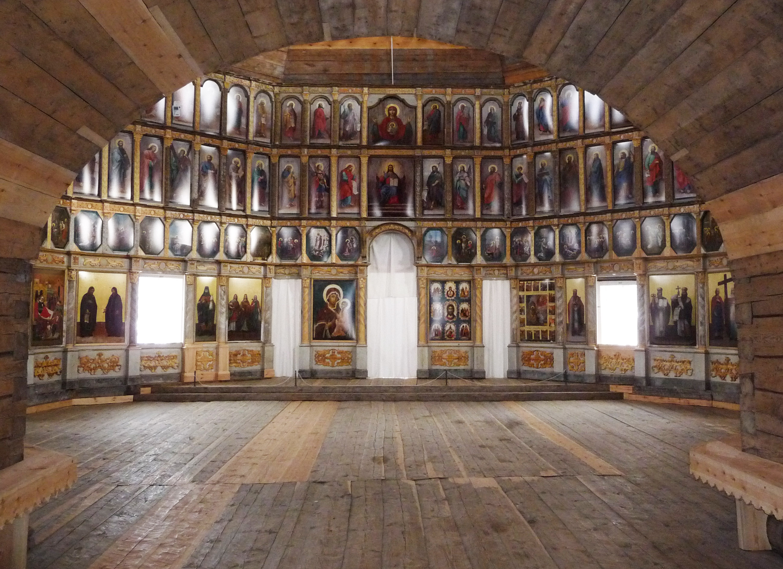 Interior of the Church of Elijah the Prophet in_Tsipino_Pogost. About Ferapontov Monastery, Vologodskaya oblast, Russia. There is the recreated iconostasis contains photocopies of original icons in the background.